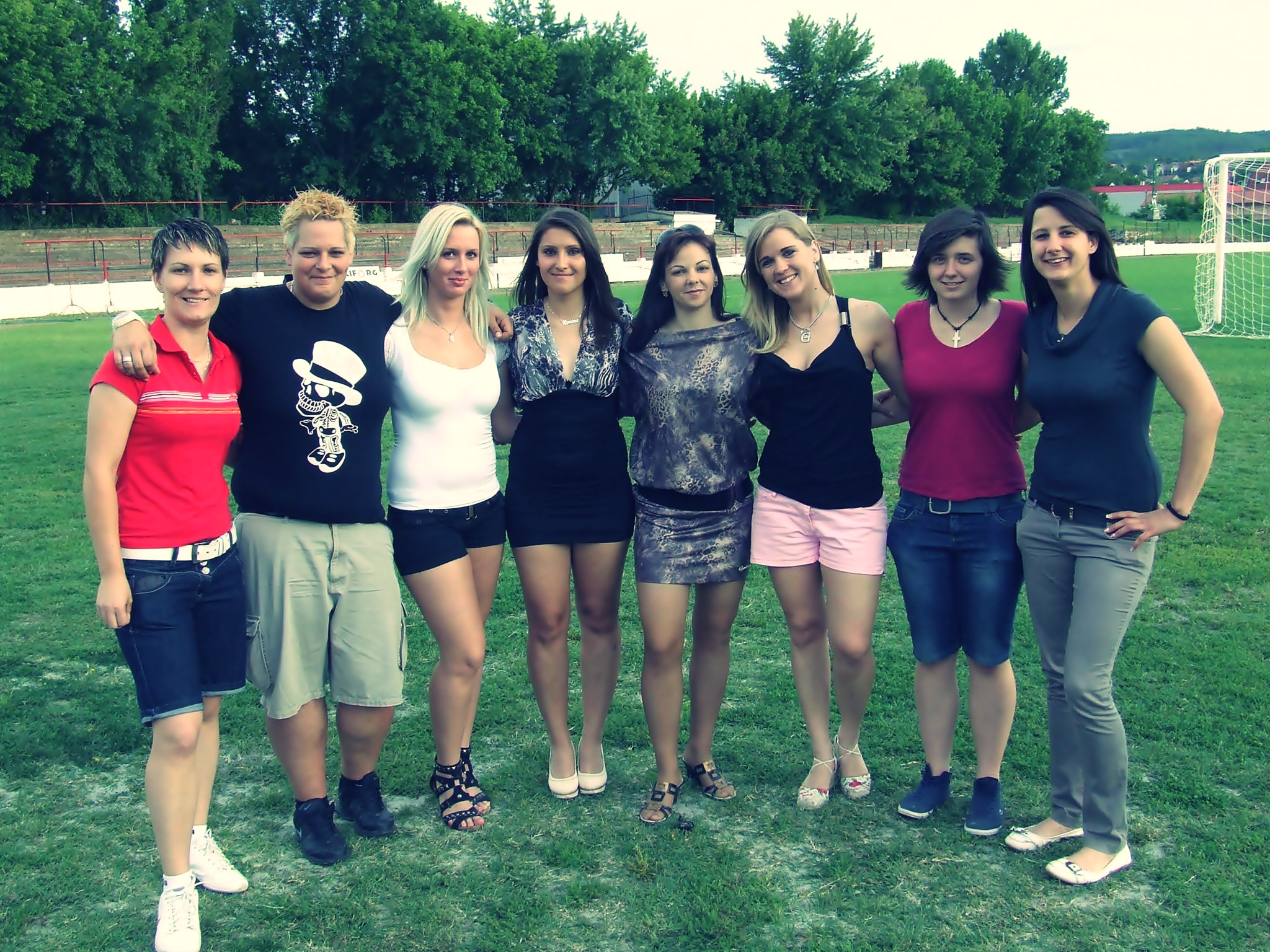 When the soccer players girls out of sporting